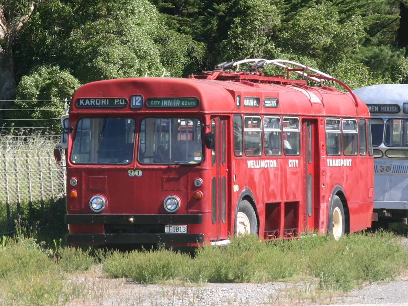 Retired Wellington City Transport "big red" trolley bus, "British United Traction" type, but manufactured by subcontractor Scammell Lorries Ltd (chassis #SO9936), bodywork by Metro-Cammell Weymann (England), English Electric 120 bhp motor, 42 seat capacity, colour dull red, cost £11,000, entered service 22 April 1964, retired 1986 (details from Bradley Knewstubb's Trolley Bus Web Site). Photographed at the former new car storage yard, State highway 1, Paekakariki, Wellington.